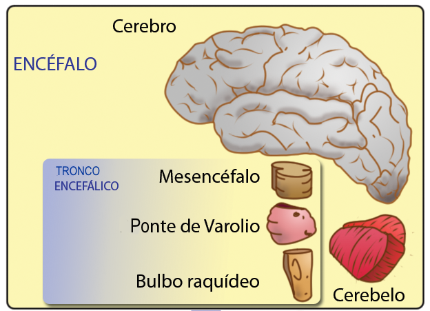 parts of the encephalon labelled in Galician